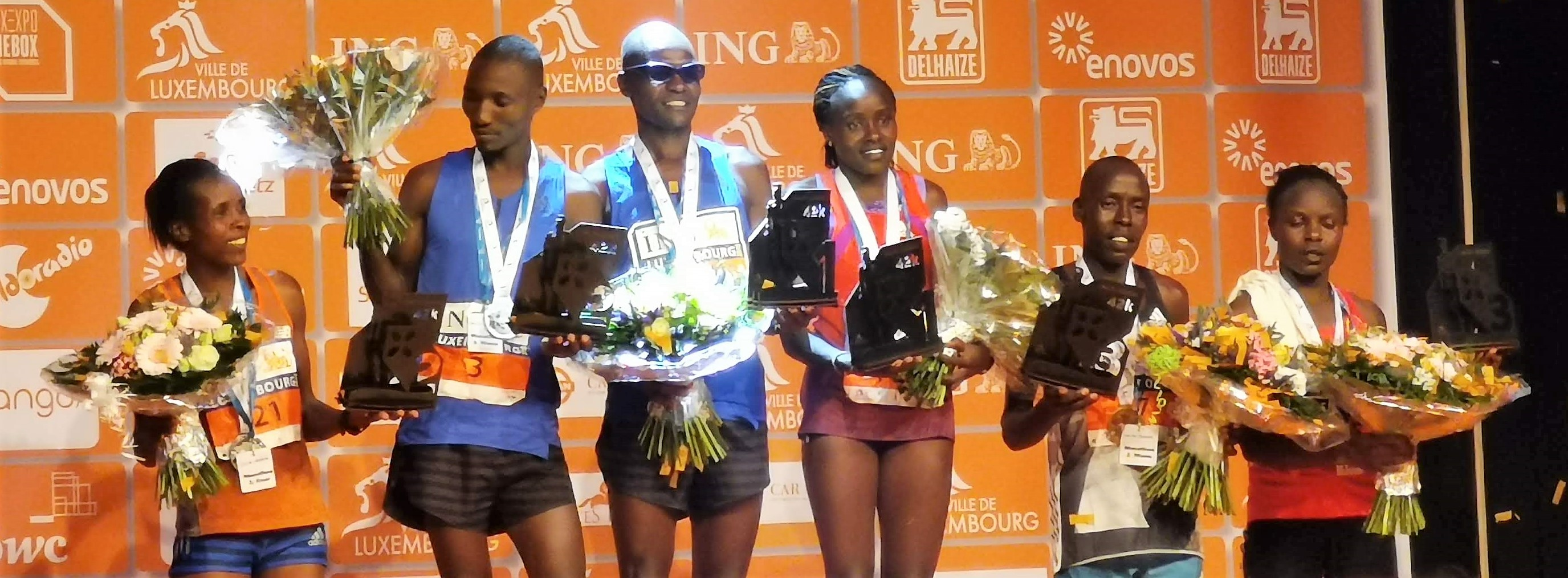 Winners of the 2019 Night Marathon in Luxembourg-City. From left to right: 2nd woman and man: Rebby Cherono Koech (2:39:29), Joseph Munywoki (2:18:53); first man and woman: John Komen (2:16:05), Jematia Chepkwony (2:38:55); 3rd man and woman: Philip Birech (2:20:18), Sarah Lagat (2:41:48).